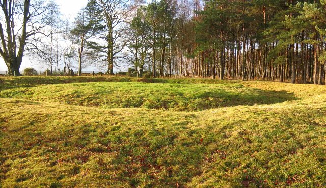 Kirkhill Roman watchtower. One of the more defined watchtower sites beside the Gask Ridge Roman Road. The sites lie approximately 1km apart with many being easily accessible and marked with information boards.